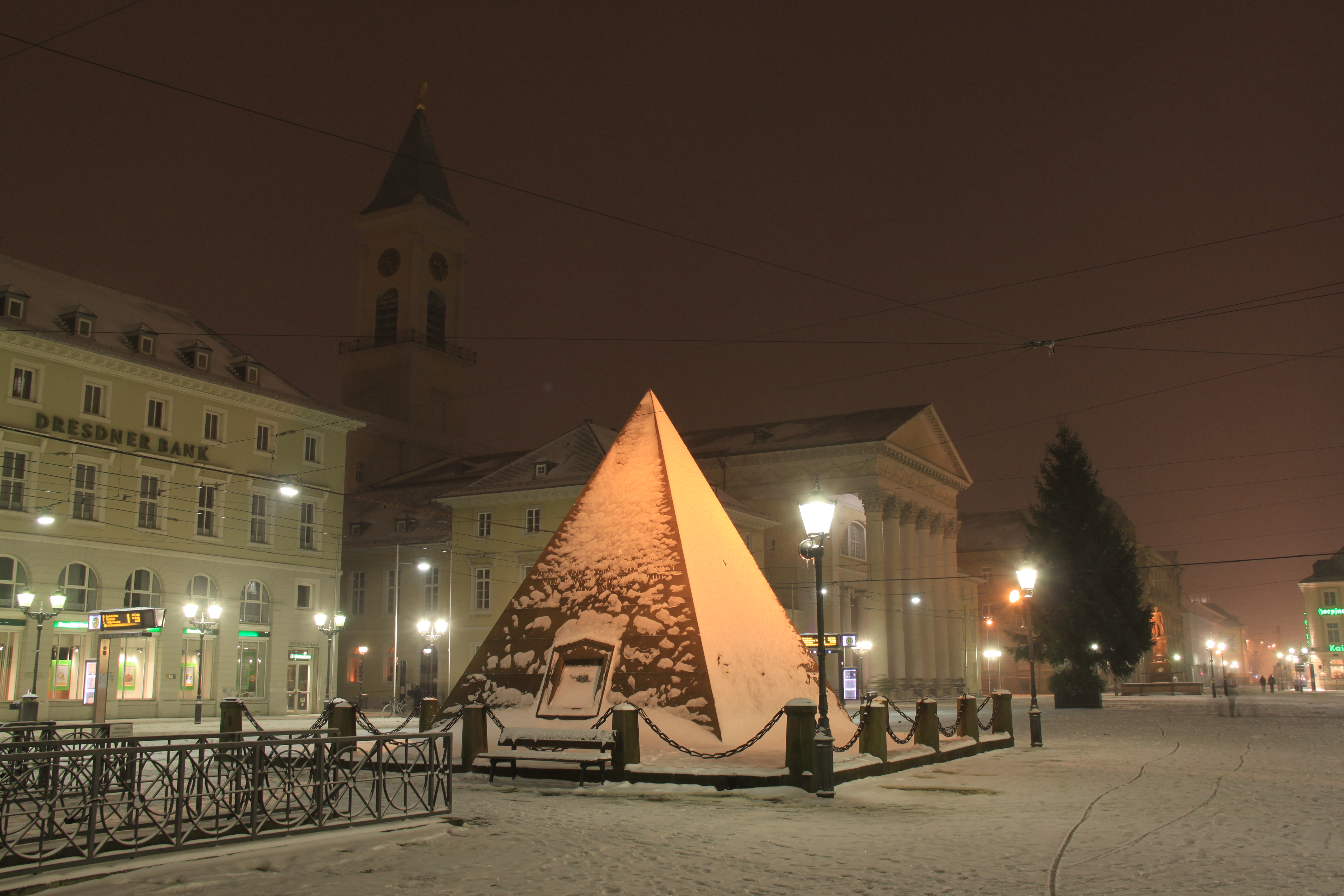 Karlsruhe, Pyramide